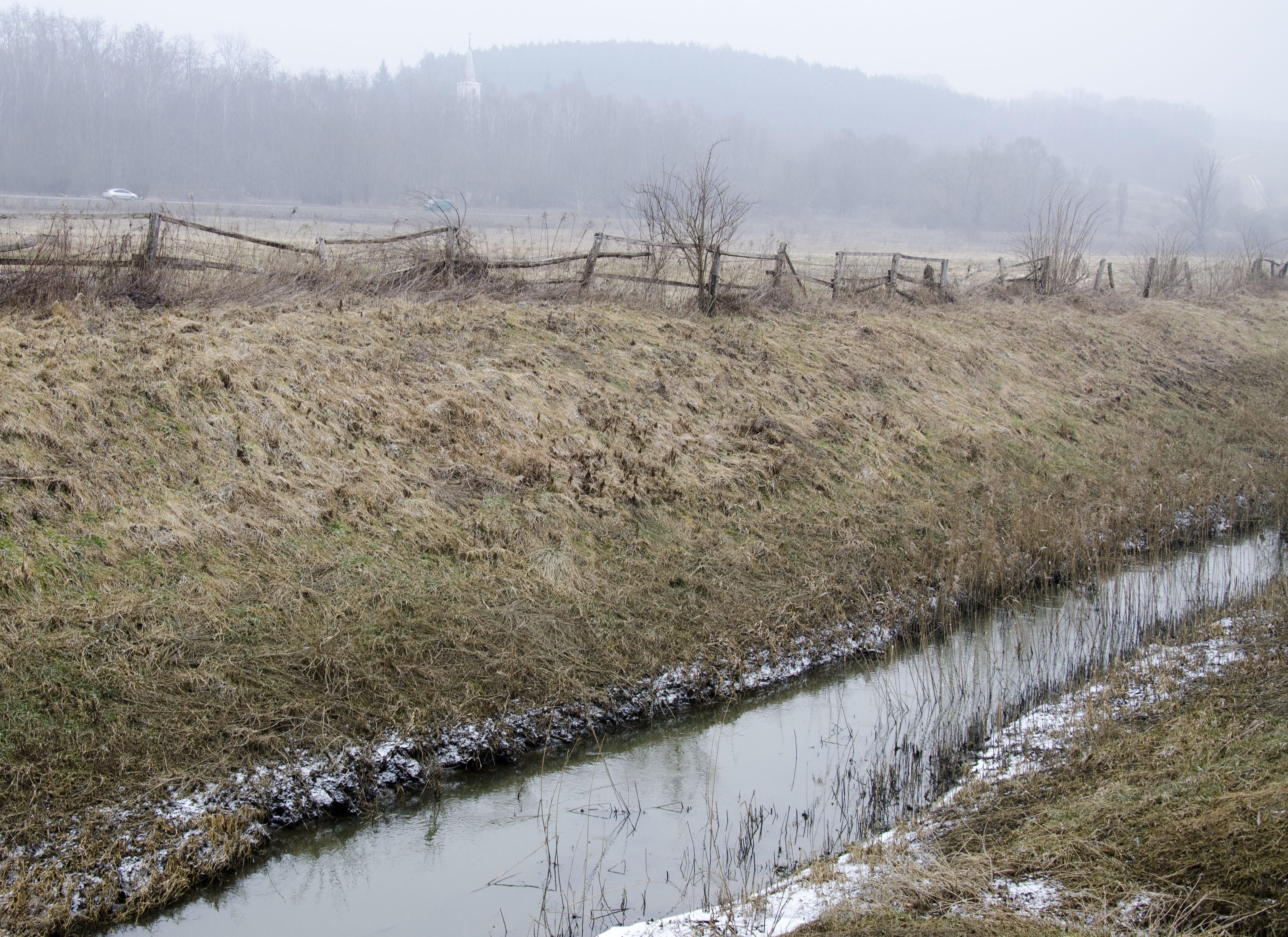 Valicka brook at Bocfolde, with view of the catholic church of Csatar village